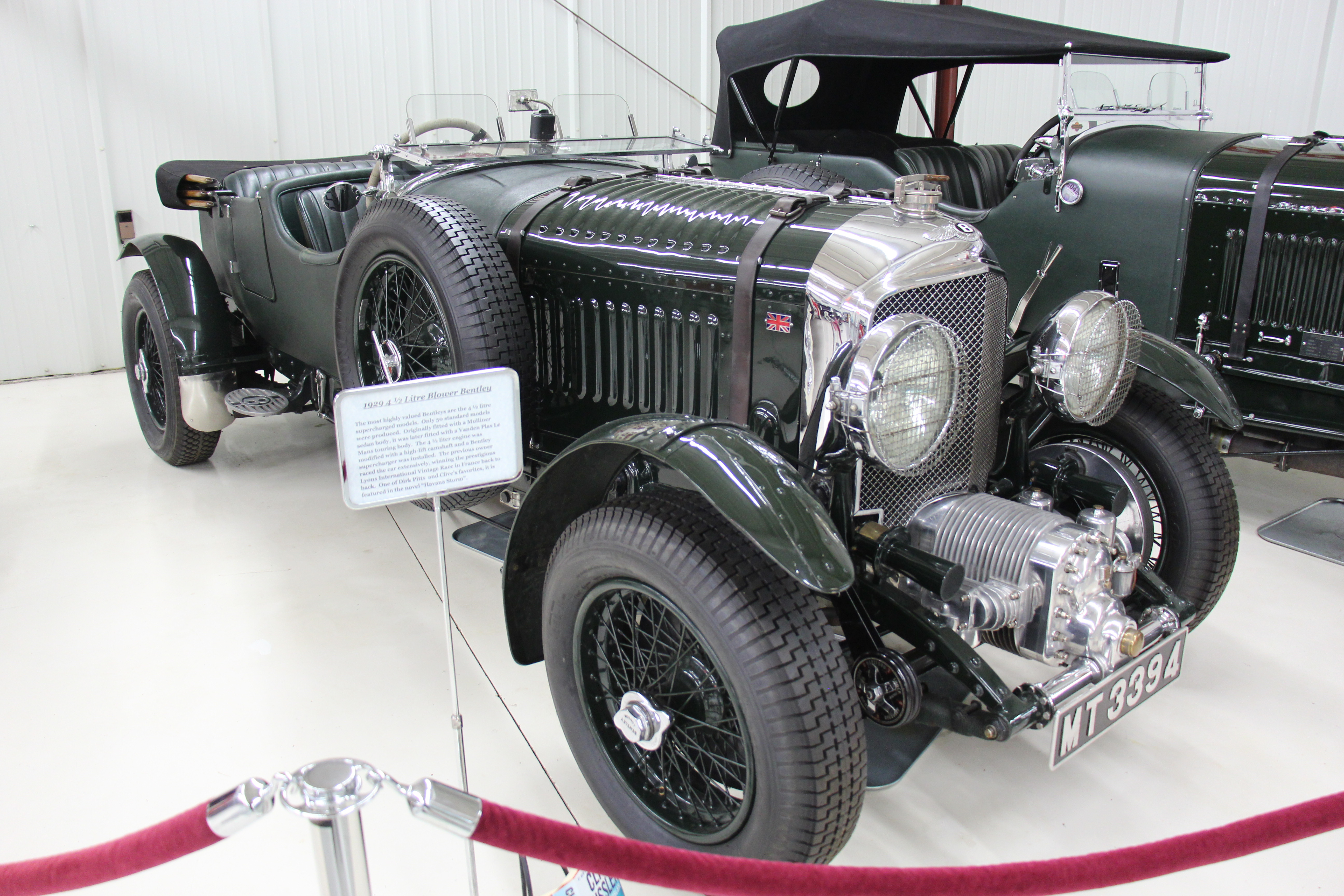 The Bentley 3 litre, introduced in 1921, was replaced with a more powerful car in 1927, by increasing its engine displacement to 4.4 litres. Mostly Tourers and Saloons were built. A total of 720 4½ litre cars were produced between 1927 and 1931, including 55 cars with a supercharged engine popularly known as the Blower Bentley, these Blower Bentleys were introduced in 1929. The Blower Bentley got a Roots type supercharger placed at the end of the crankshaft, in front of the radiator giving it an easily recognisable appearance. Street versions produced 175hp whereas the race version, 240hp At the time, noted car manufacturers such as Bugatti and Lorraine-Dietrich focused on designing cars to compete in the 24 Hours of Le Mans, a popular automotive endurance course established only a few years earlier. Bentleys had four consecutive wins at the 24 Hours of Le Mans, and forged the brand's reputation Photographed at the Cussler Museum